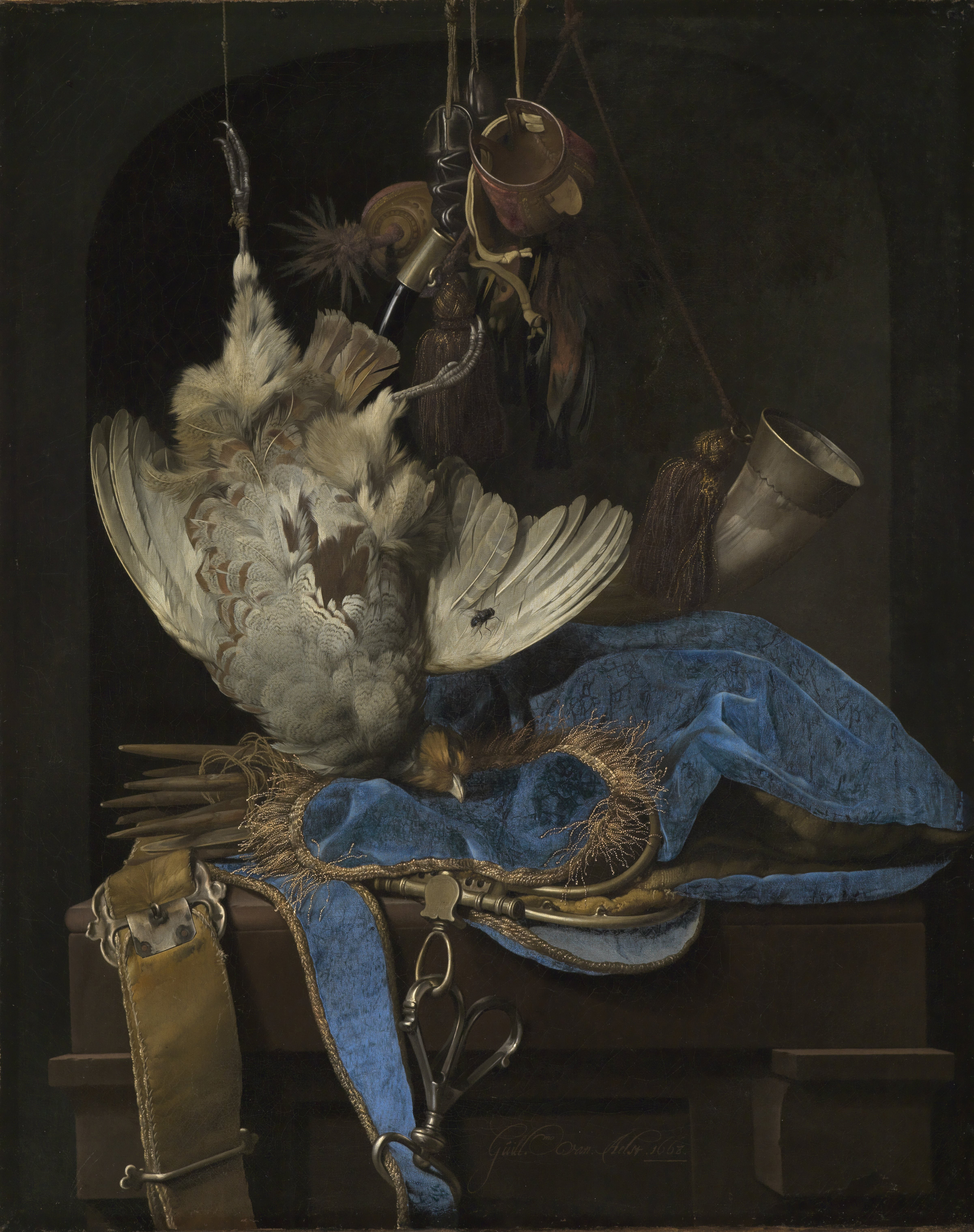 Still-Life with Hunting Equipment and Dead Birds